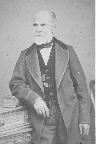 Pau Fèlix's portrait (taken from Las fados en Cévénos, 1872)